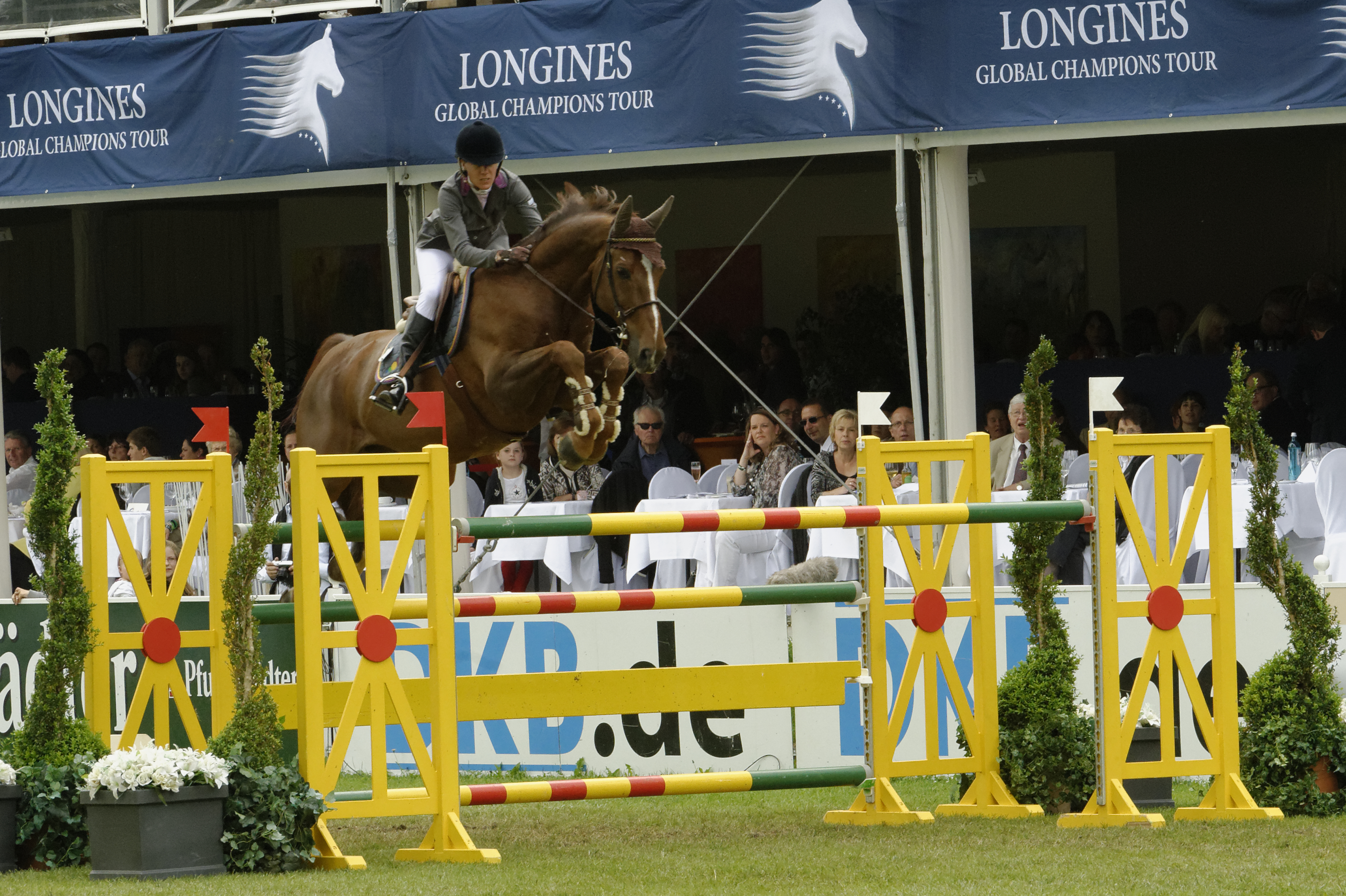 Internationales Pfingstturnier Wiesbaden 2013 The making of this document was supported by the Community-Budget of Wikimedia Germany.